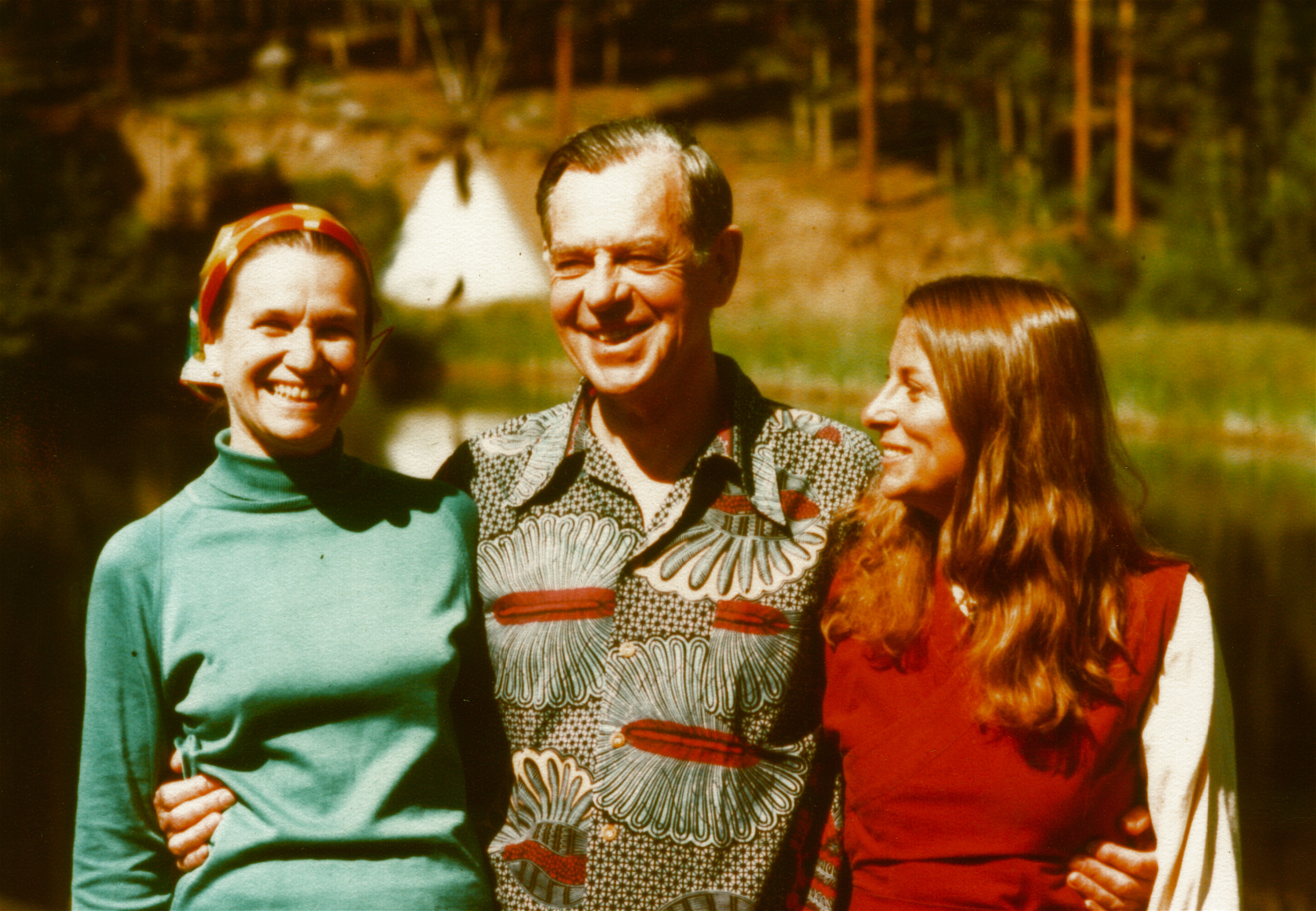 Jean Erdman, Joseph Campbell, and Joan Halifax, Feathered Pipe Ranch, Montana, late 1970's